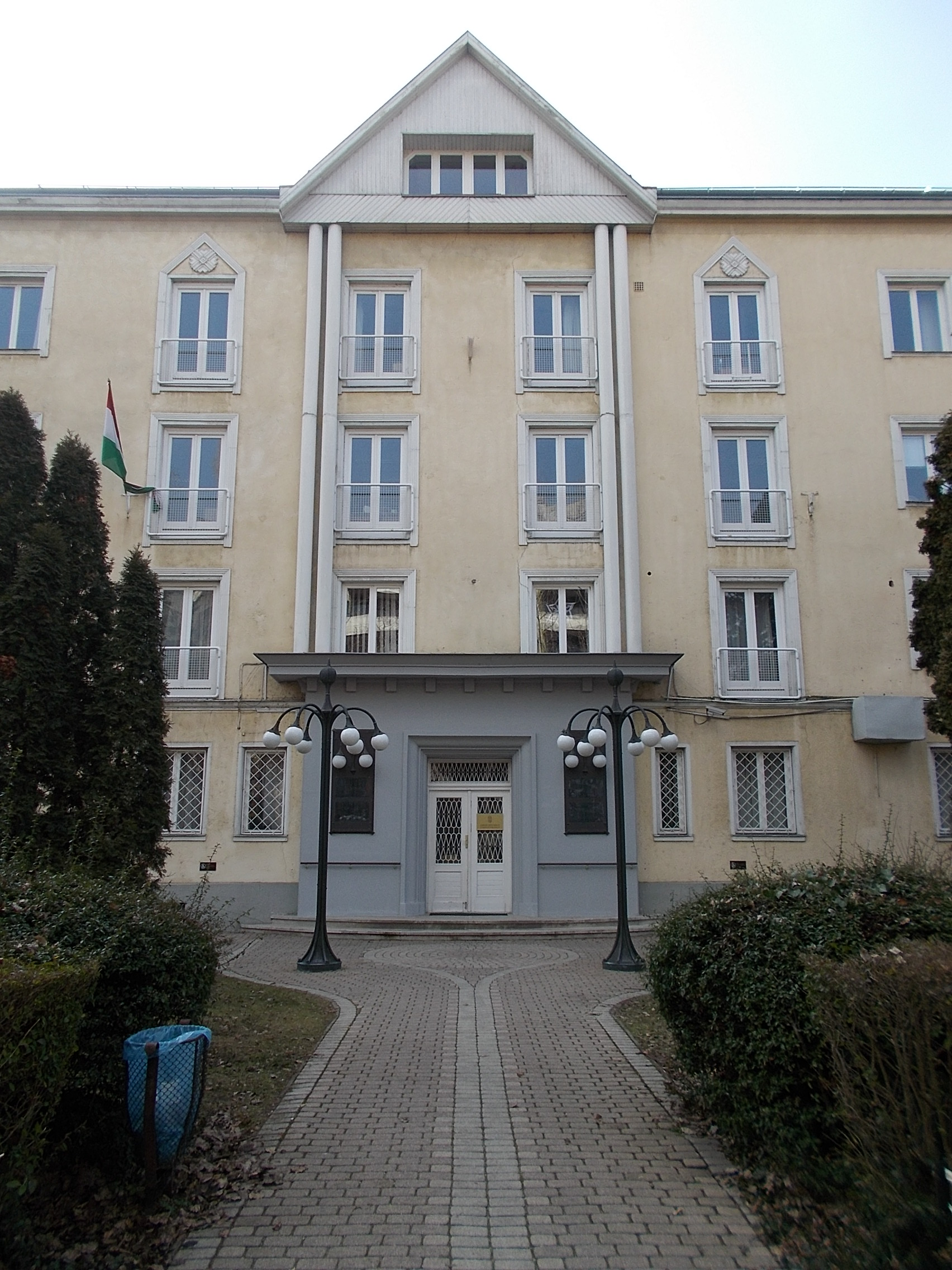 Cca.: Support management office of Human Capacities. A division of the Hungarian Ministry of of Human Capacities. - 6-8 Szobránc street, Istvánmező neighborhood, 14th District of Budapest.